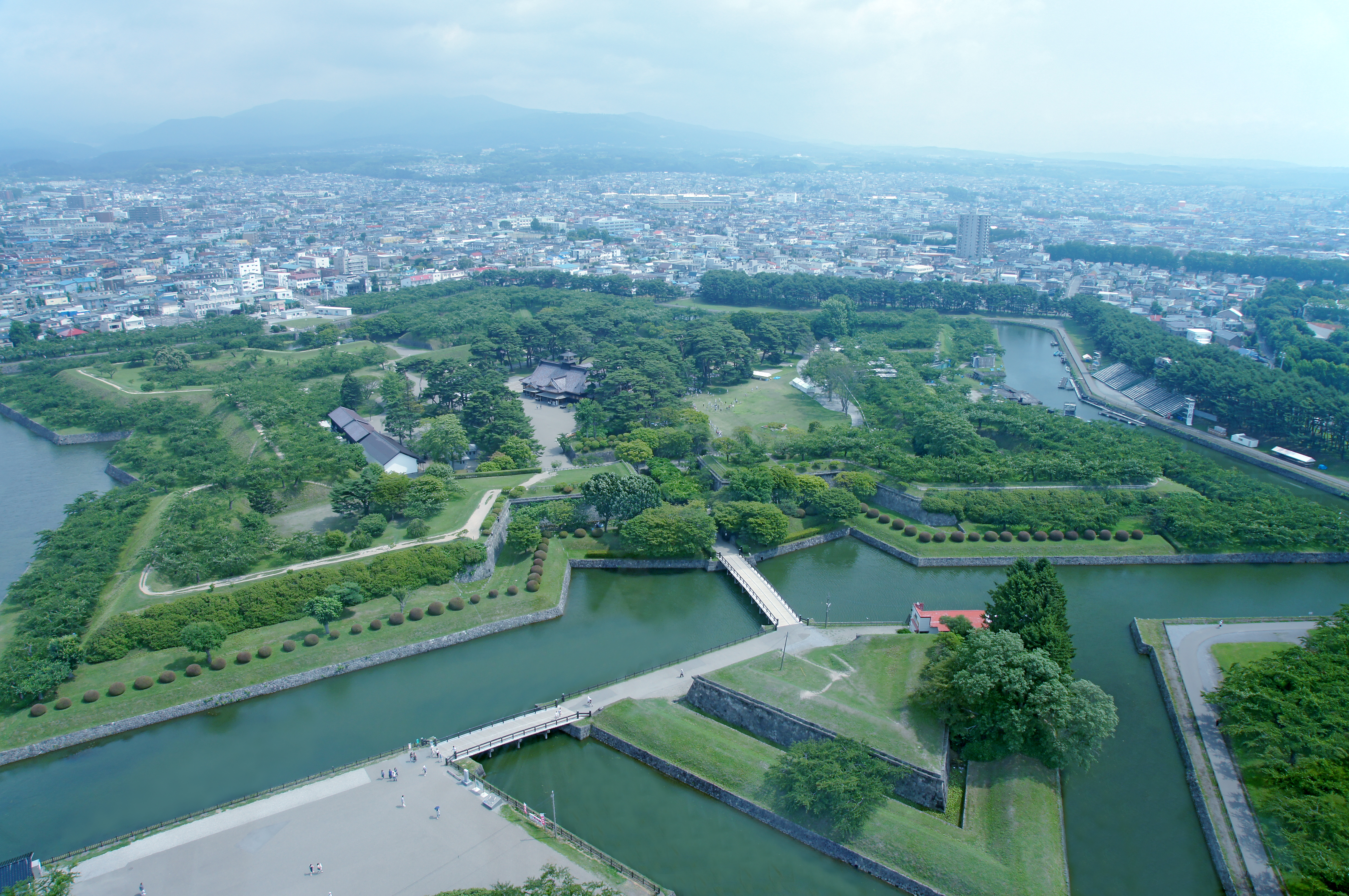 Goryōkaku in Hakodate, Hokkaido prefecture, Japan